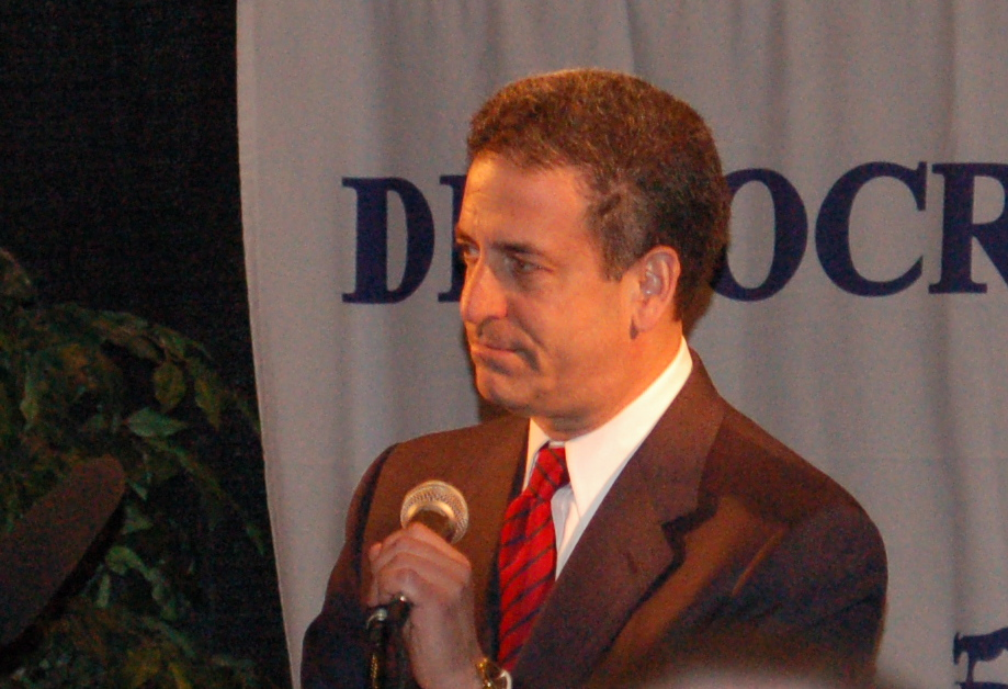 Senator from Wisconsin, Russ Feingold.